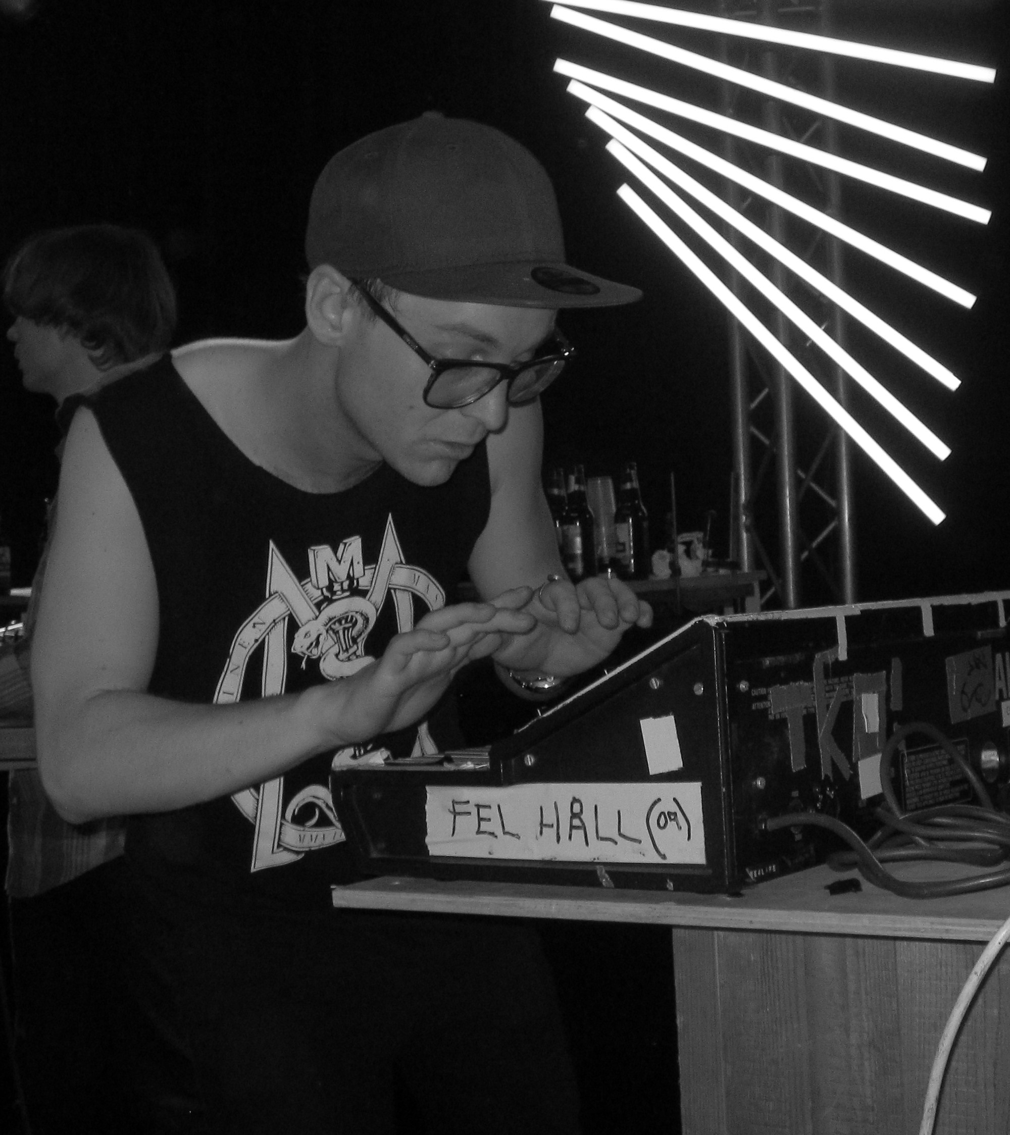 Frej Larsson of Slagsmålsklubben live on stage in Delft at StuDuction 2010-05-28